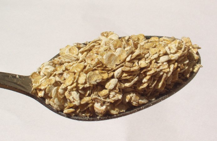 Rolled oats